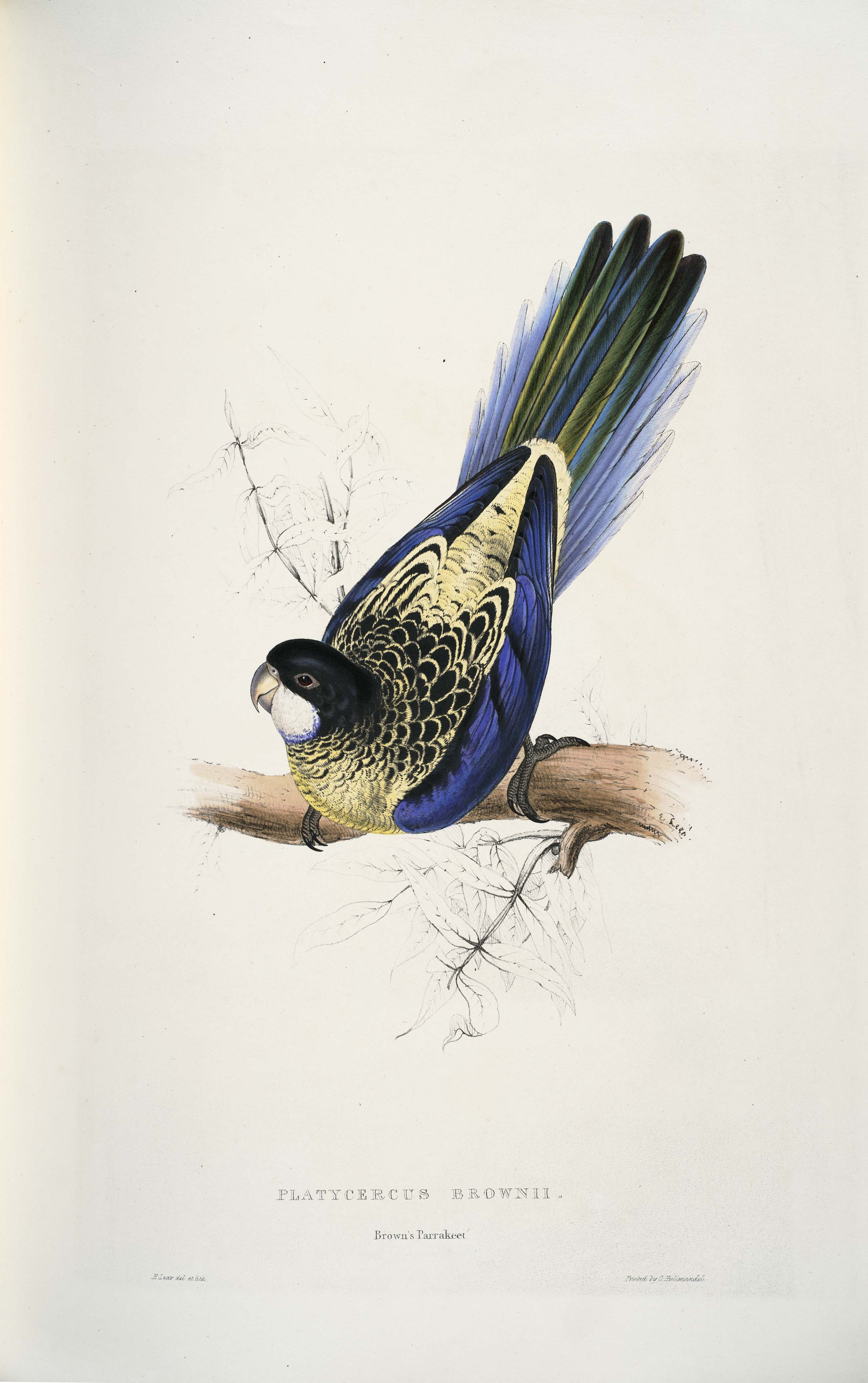 A painting of a Northern Rosella, also known as Brown's Parakeet, (originally captioned "Platycercus brownii Brown's Parrakeet") by Edward Lear 1812-1888.